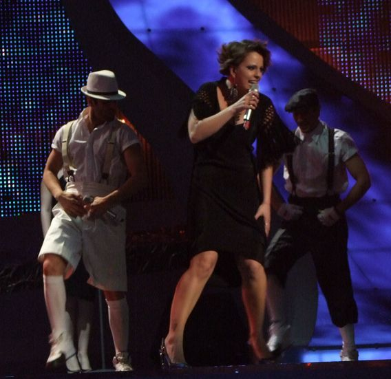 Tamara Todevska (Republic of Macedonia) performing Let Me Love You at second semi-final, Eurovision Song Contest 2008 in Belgrade, Serbia, May 22, 2008.